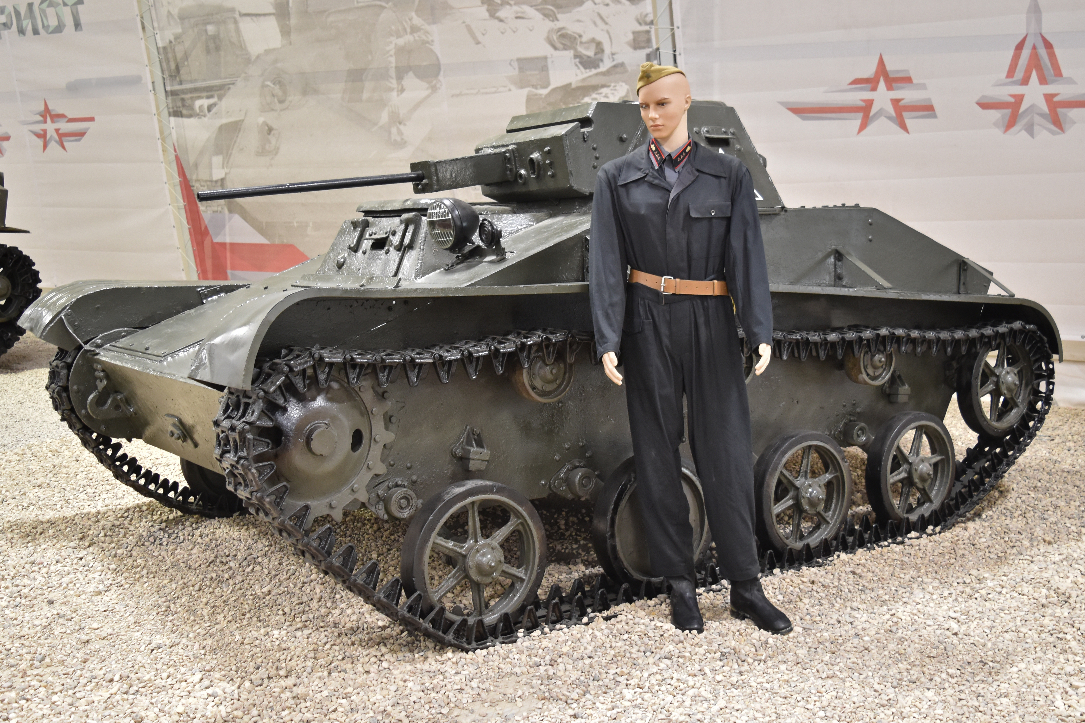 Soviet WW2 era Light Tank Designer:- Nicholas Astrov Manufacturer:- Various Built:- 1941 to 1942 Total Production:- 6,292 Main Armament:- 20mm TNSh cannon Designed to replace the amphibious T-38 scout tank. The following quote from seems to sum up the T-60:- “Whilst such a large number were produced, it was hated by all who had to deal with it – all except the Germans, who found it to be a substandard and underwhelming opponent, and a rather nice ammunition carrier or gun towing tractor, once captured. As a result of its poor armor, substandard armament and sluggish performance, it was more dangerous to its crews than anybody else, earning it the title Bratskaya Mogila na Dovoikh, literally: “a brother’s grave for two.” Antonov converted one into a flying tank, which was designated the A-40. The tank was attached to a huge set of biplane wings with twin boom tail. While it was successfully flown, it would still not have improved the characteristics of T-60 itself, however it arrived in battle! This is probably the only surviving example and is on display in Hall 9 of the Patriot Museum Complex. Park Patriot, Kubinka, Moscow Oblast, Russia. 25th August 2017